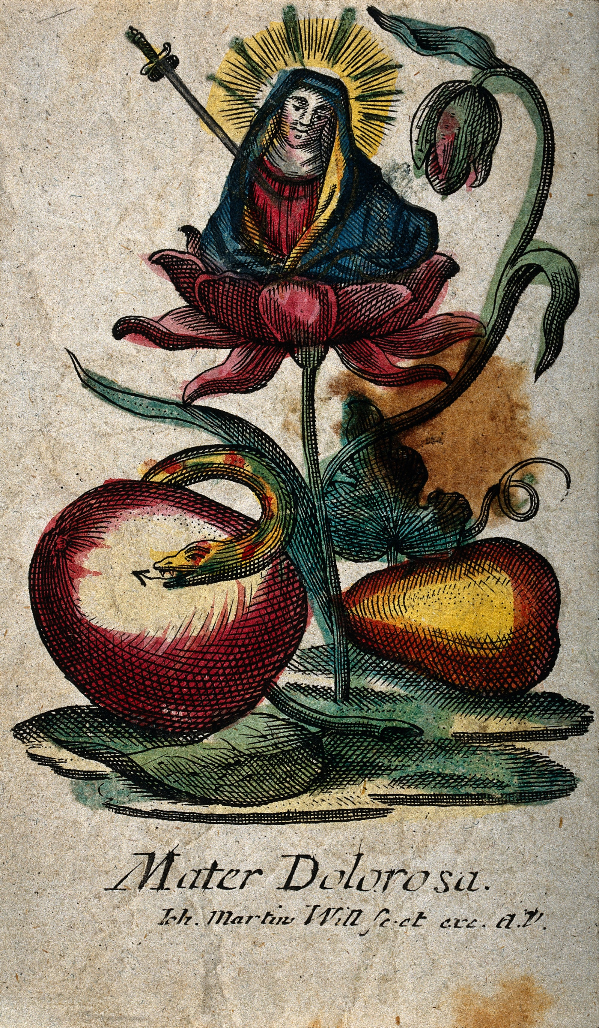 The Virgin of Sorrows in the blossom of a flower, underneath an apple, a pear and the serpent. Coloured etching by Joh[ann] Martin Will. Iconographic Collections Keywords: Johann Martin Will